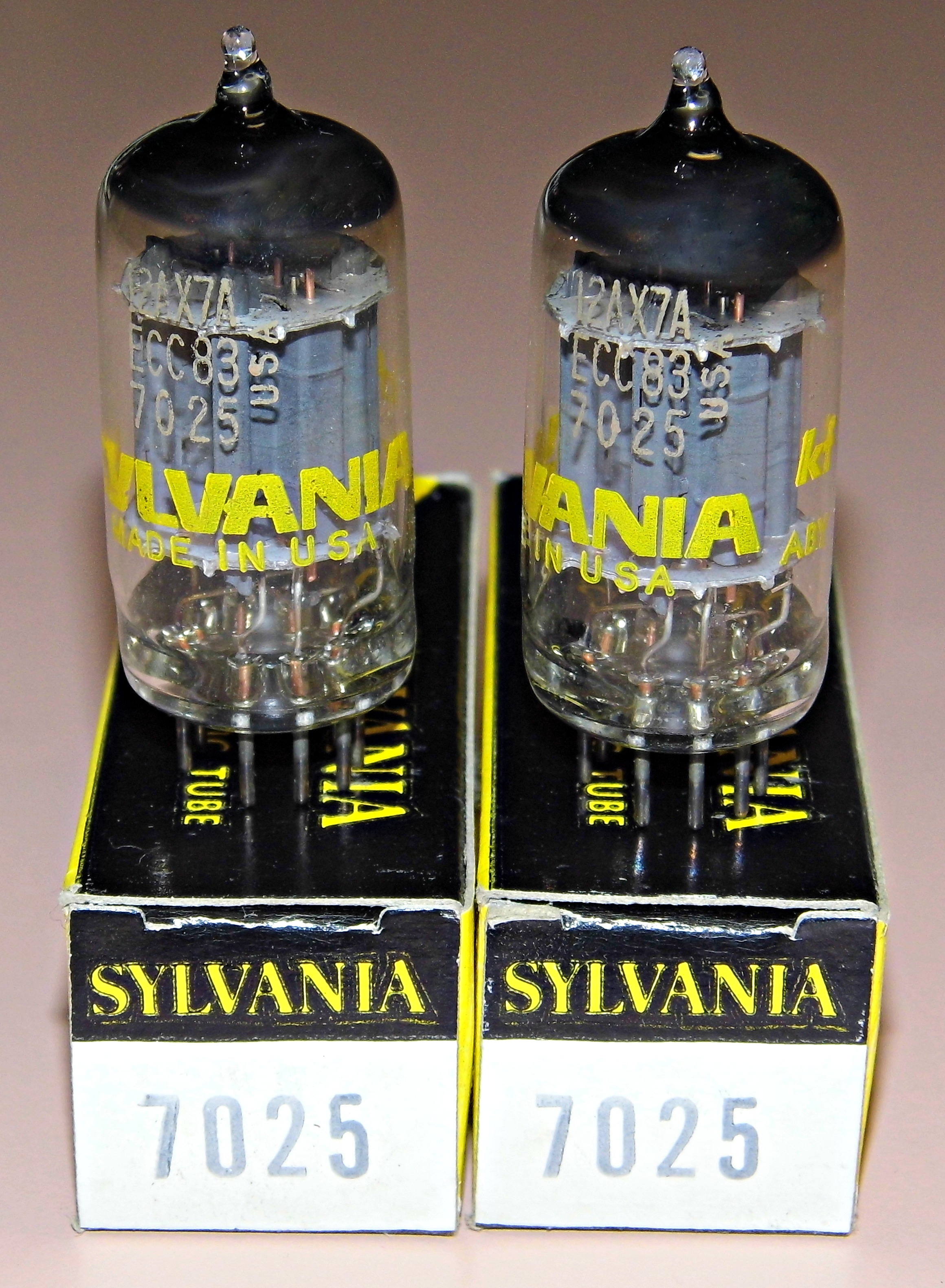 Pair Of Vintage Sylvania 12AX7A-ECC83-7025 Vacuum Tube, Made In USA